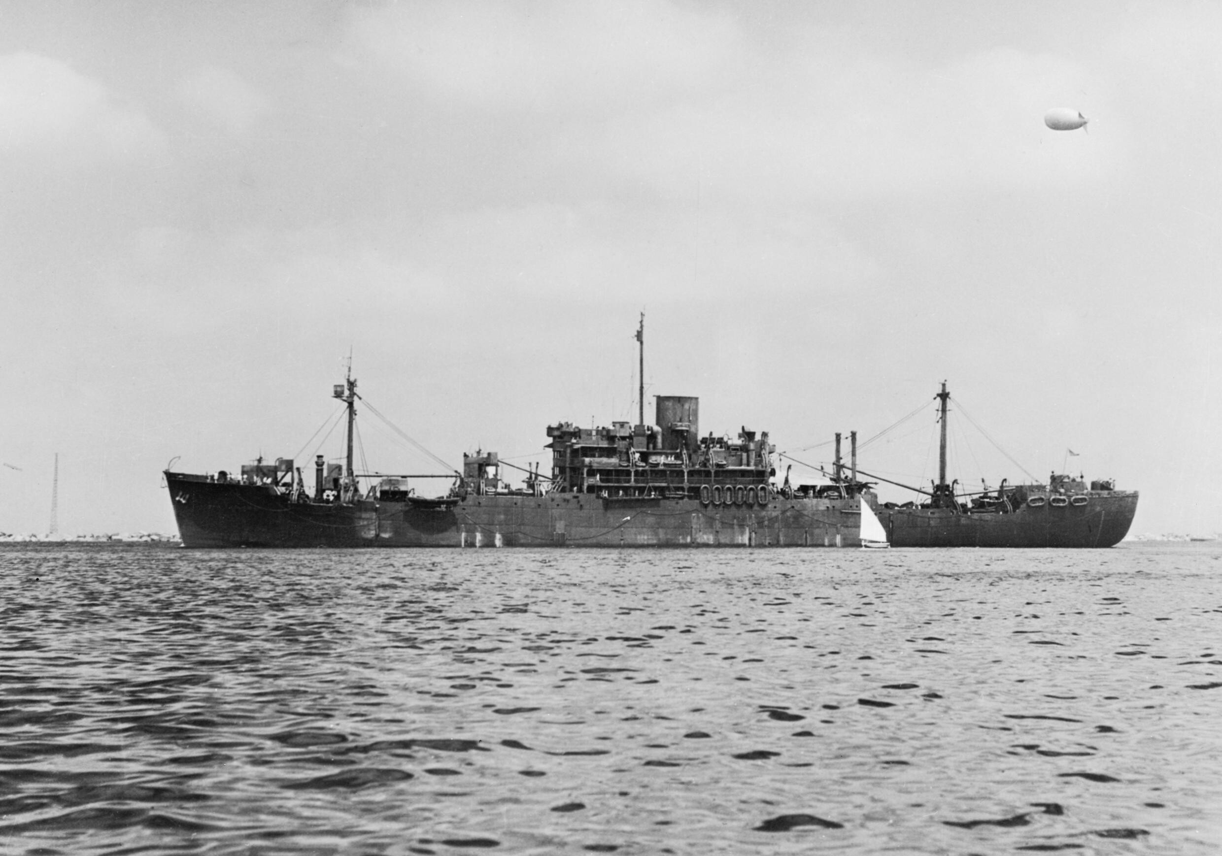 British Infantry Landing Ship HMS GLENGYLE stationary